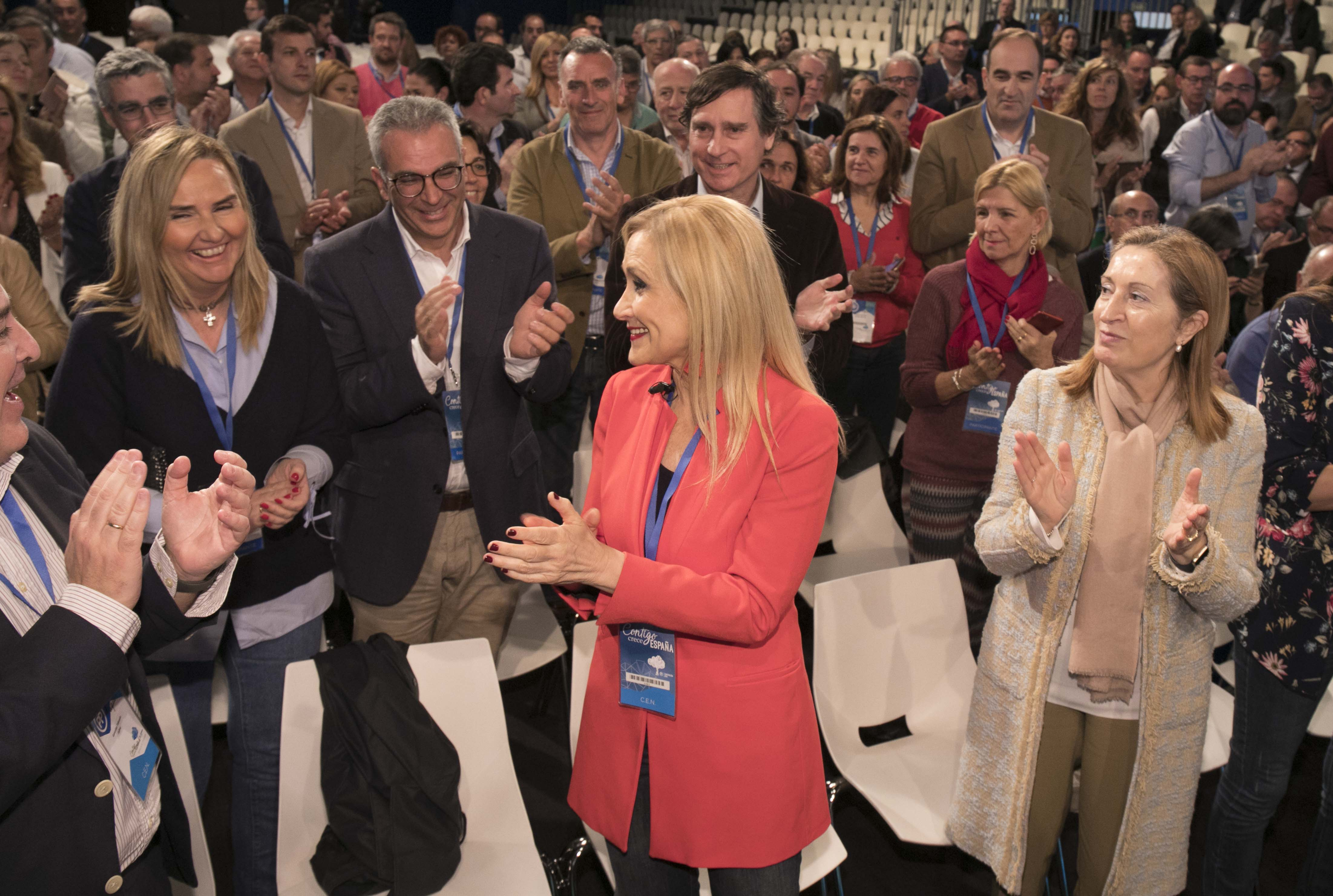 14CA8E56-D89B-49CB-8E0A-07509B2EF27B